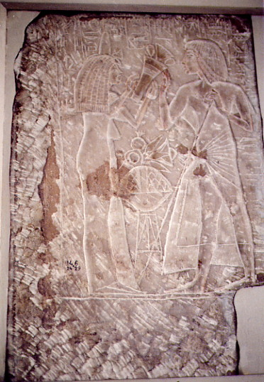 relief from the tomb of Iniuia, Saqqara, now in the Egyptian Museum of Cairo